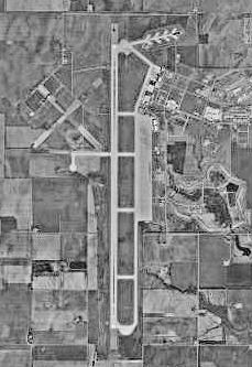 Clinton-Sherman Airport, OK - 17 Feb 1995